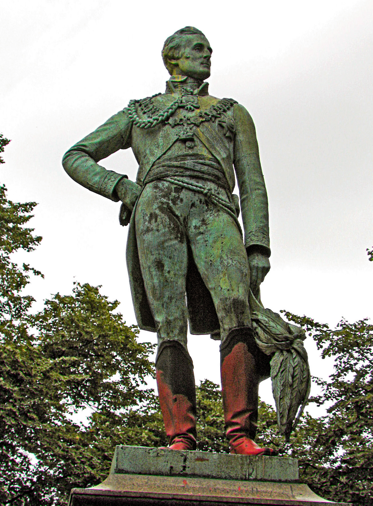 Statue of the Duke of Wellington by Baron Carlo Marochetti. 1855. Bronze. Moved to present position in 1937. Woodhouse Moor Park, Leeds, West Yorkshire